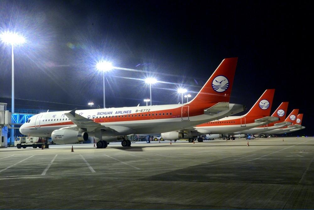 CKG is a major hub for Sichuan Airlines.